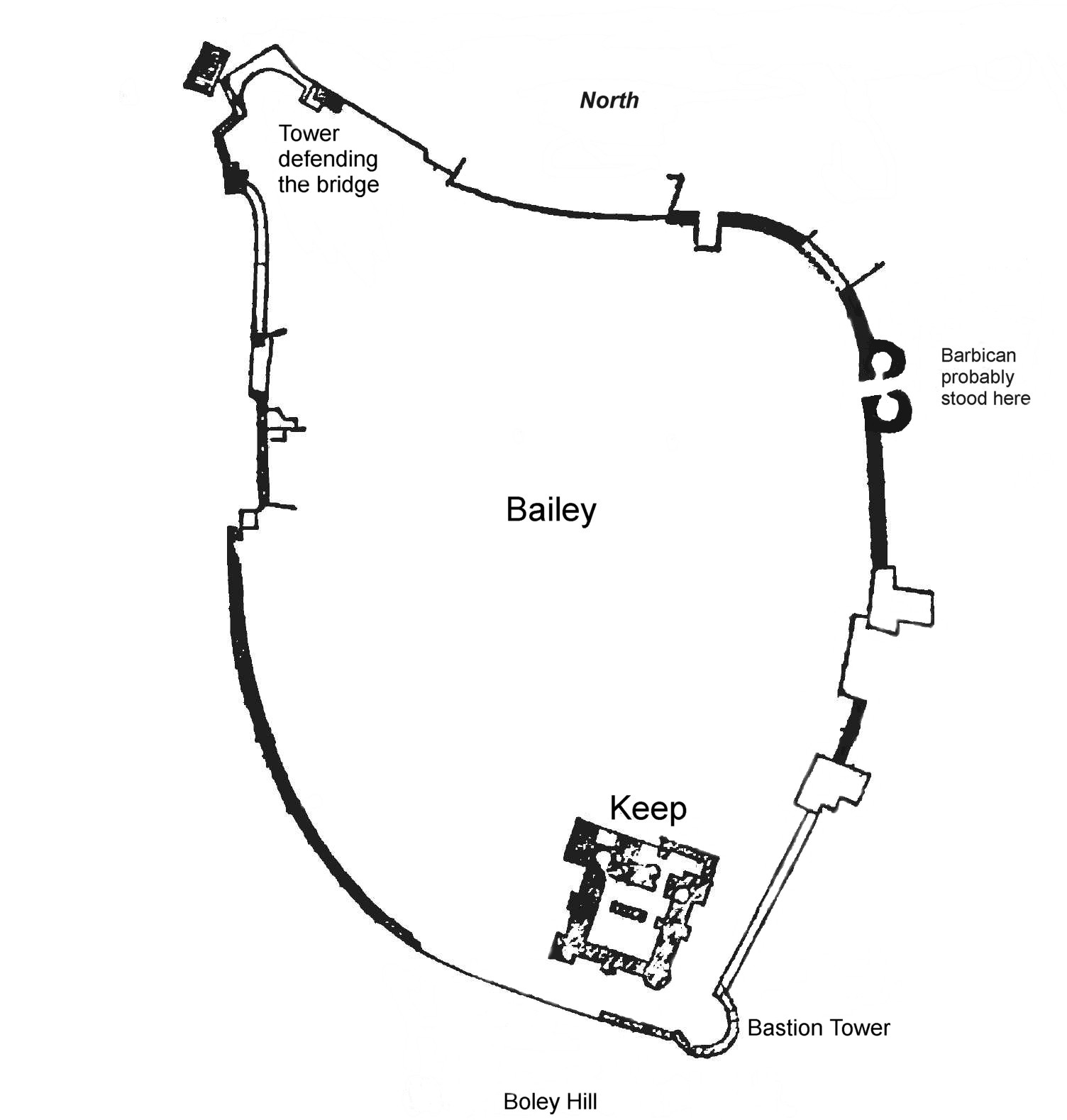 Plan of Rochester Castle and keep, derived from Penny cyclopaedia (1836) V6 page 355